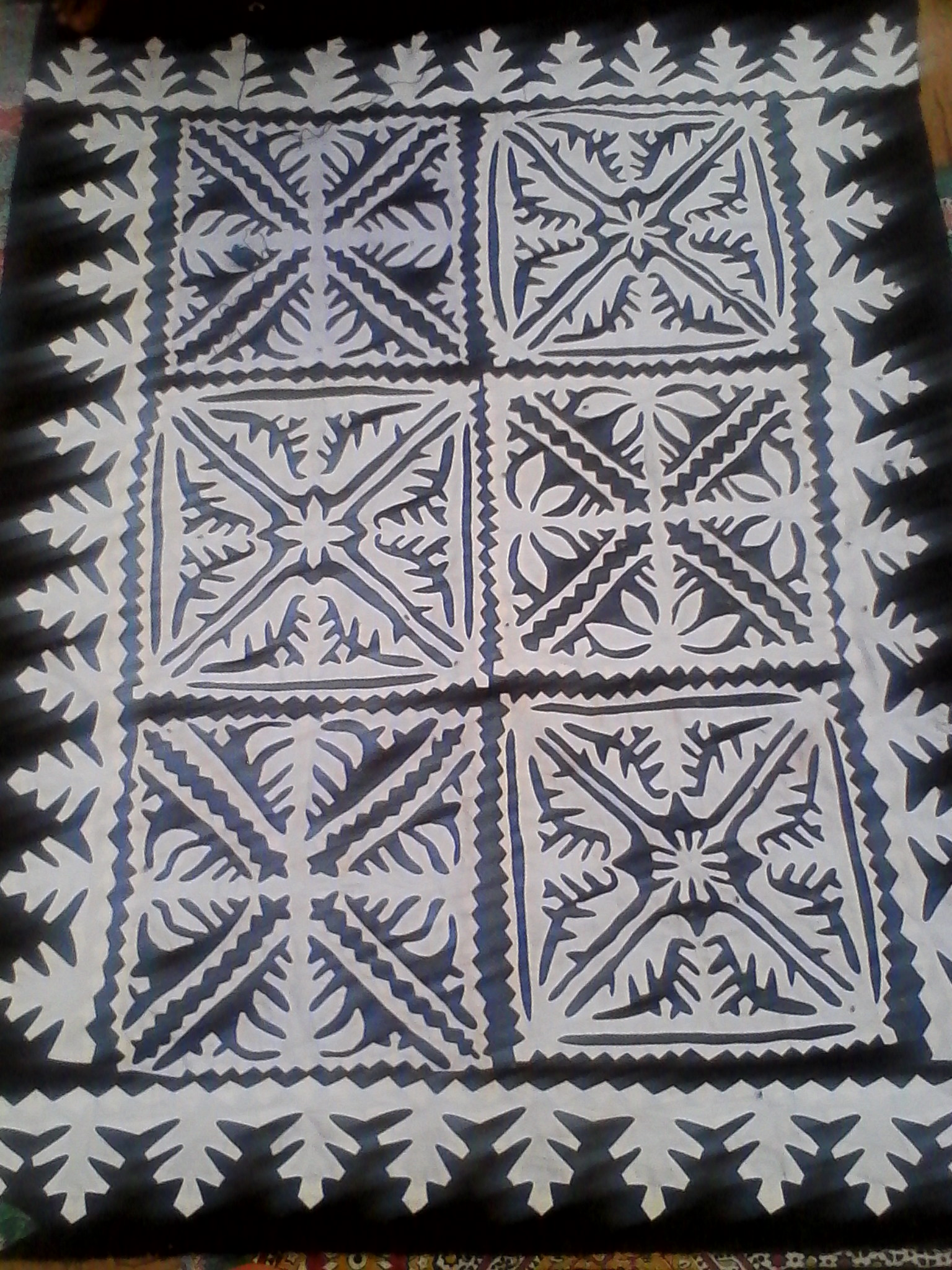 Sindhi art black and white ralli